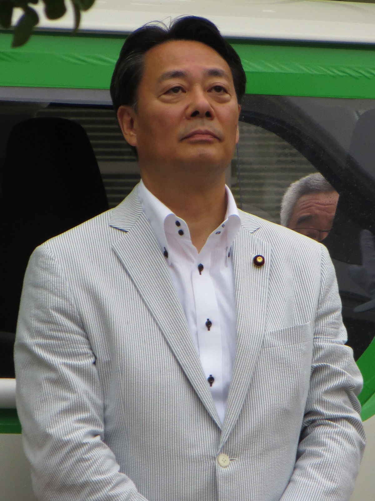 Banri Kaieda (President of the Democratic Party of Japan).